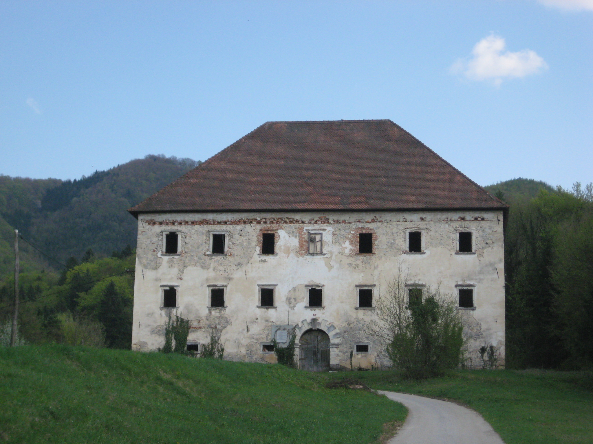 Prežek castle, Slovenia